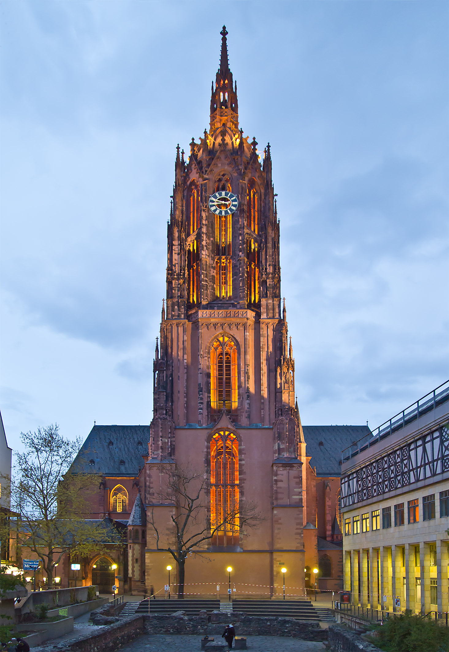 Kaiserdom St. Bartholomew in Frankfurt (westsite) and Archäologischer Garten in the evening, Hesse, Germany